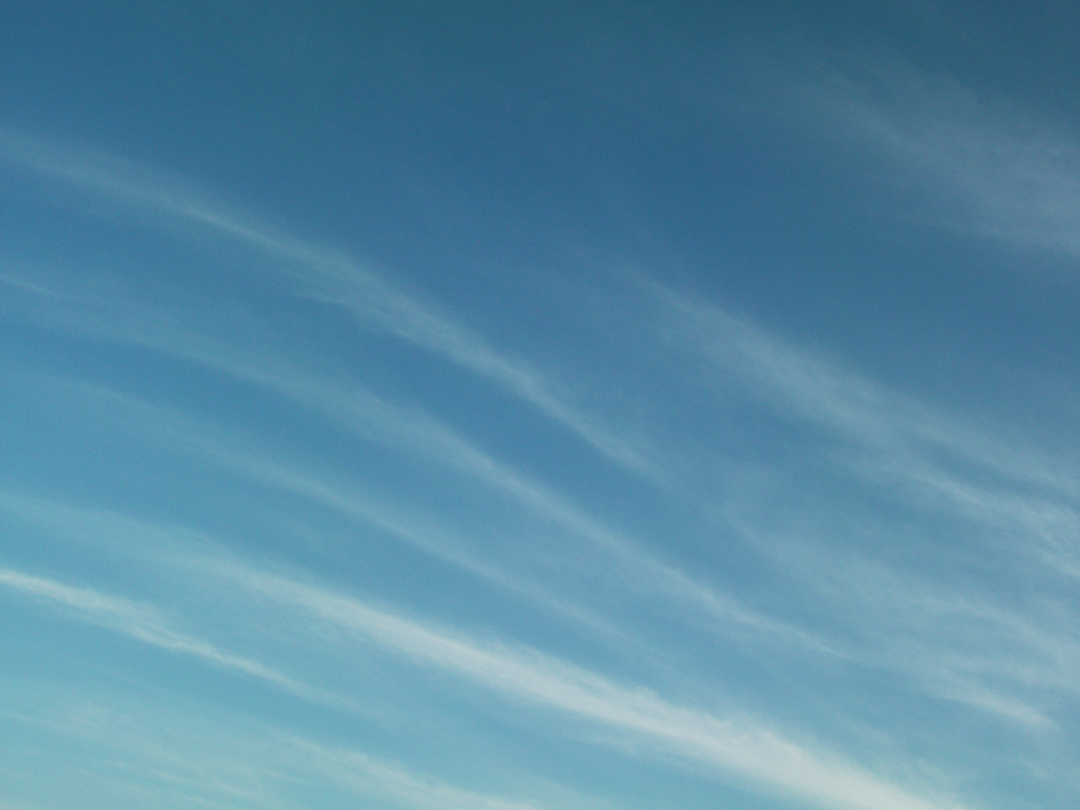 Cirrus clouds on a blue sky. Cirrus clouds are high clouds made of ice crystals.